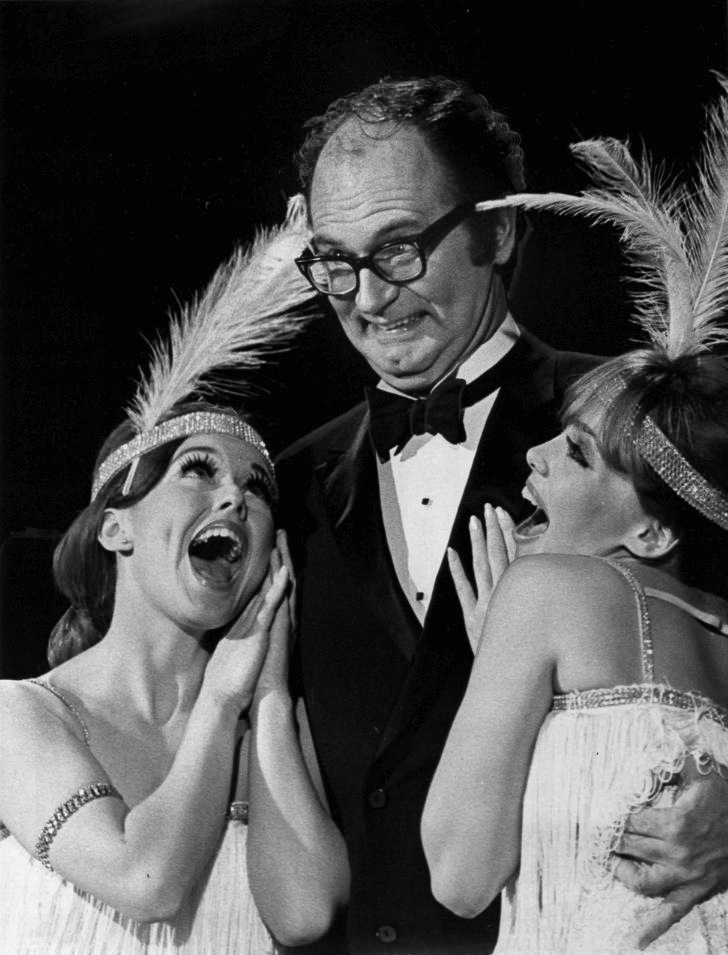 Publicity photo of American entertainer, Charles Nelson Reilly and two of the "Golddigger" dancers promoting the premiere of the second season of the NBC variety series, The Golddiggers.